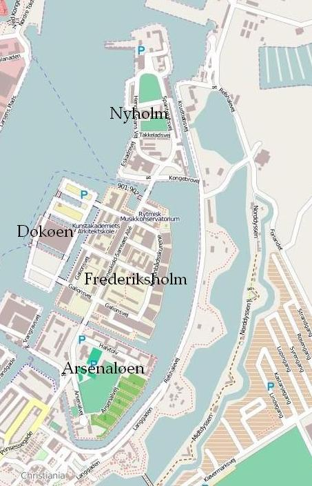 Naval Base Copenhagen